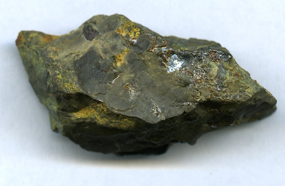 Bauranoite, Galena (Specimen size: 2.5 x 1.5 x 0.8 cm) Locality: Oktyabr'skoe Mo-U Deposit, Strel'tsovskoe Mo-U ore field, Krasnokamensk, Chitinskaya Oblast', Transbaikalia (Zabaykalye), Eastern-Siberian Region, Russia Original description: Inclusion of metallic-white grain of Galena into dark coloured orange-brown glassy masses of Bauranoite pseudomorphoses after pitchblende in felsite matrix. More bright yellowish-orange earthy masses are dehydrated portions of bauranoite. Specimen size is 2.5x1.5x0.8 cm. Collected by Larisa N. Belova. Pavel M. Kartashov collection and photo.